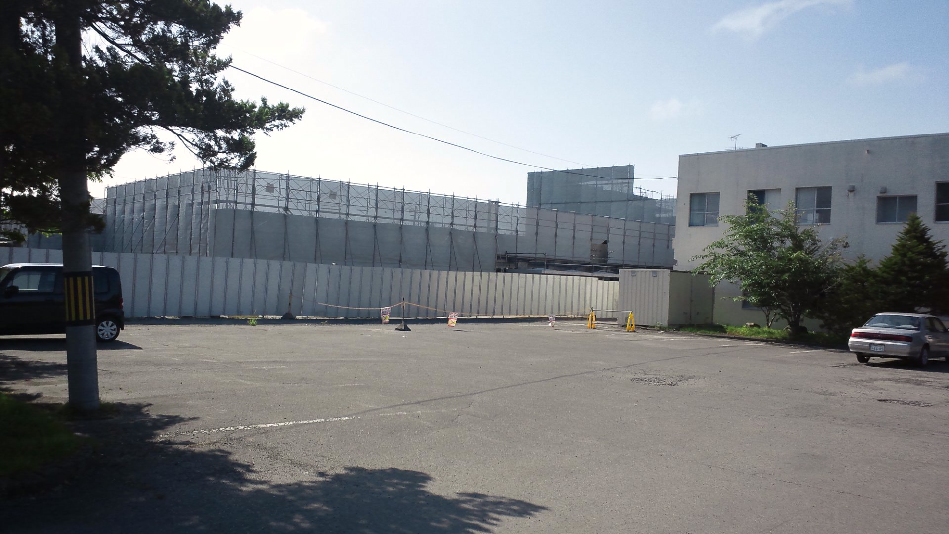 Mukawa Kosei Hospital new building (left)